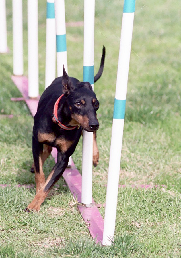 A Toy Manchester Terrier competes in dog agility.